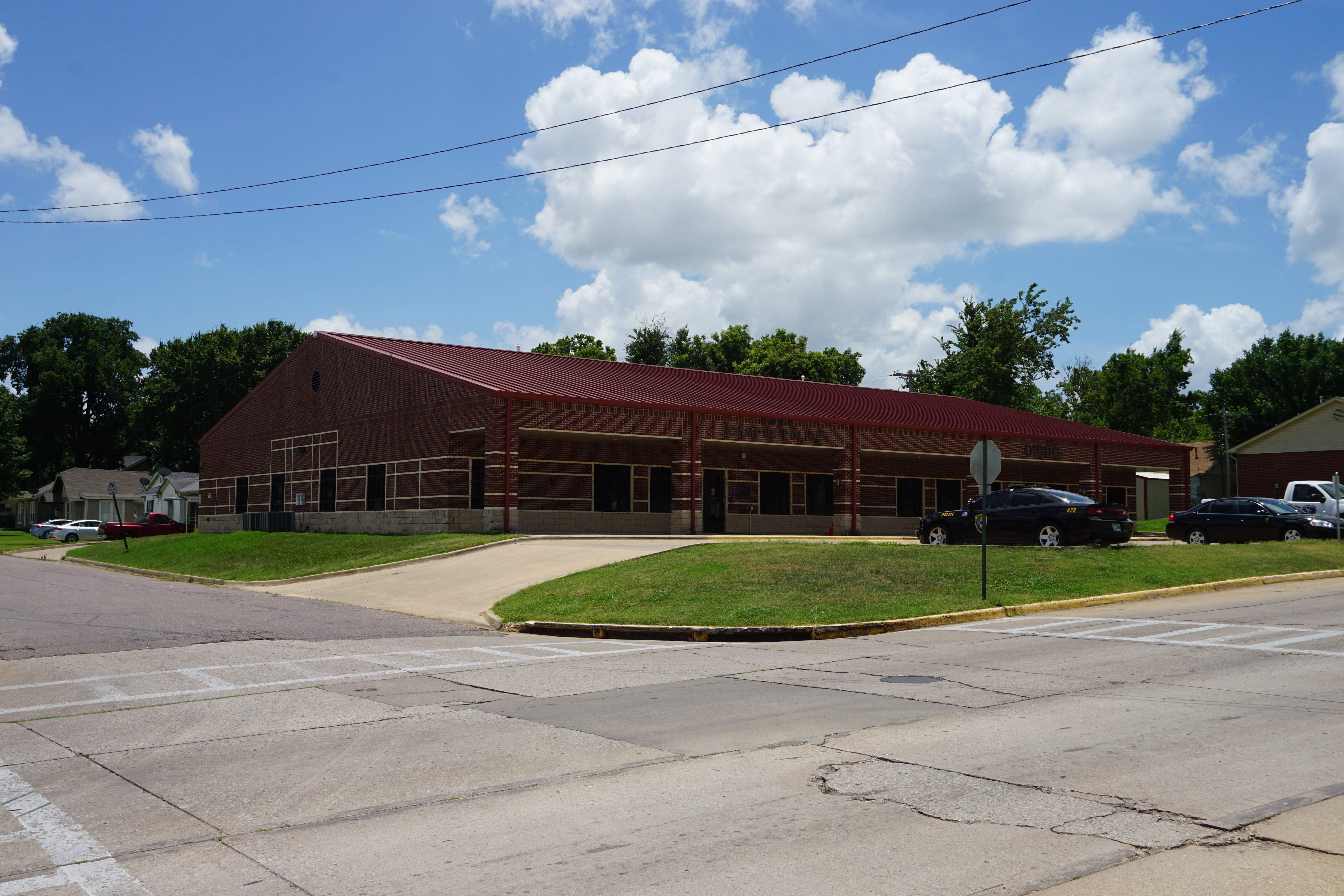 The Campus Police building on the campus of Southeastern Oklahoma State University in Durant, Oklahoma (United States).